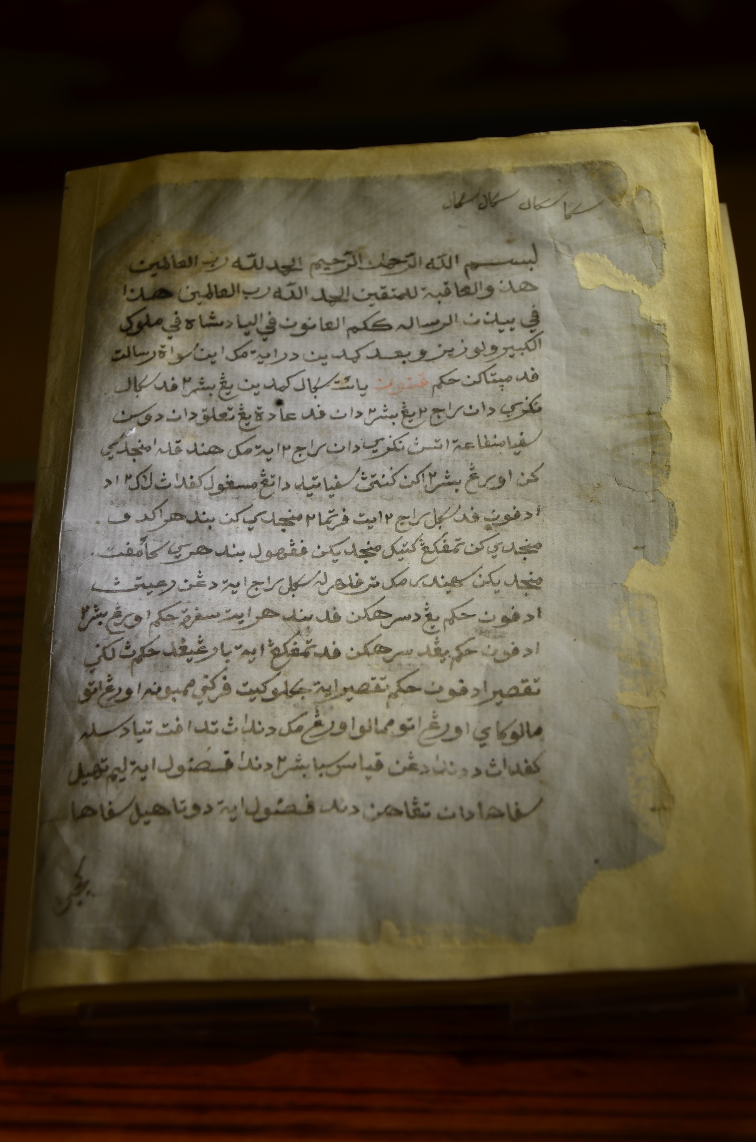 A copy of Undang-Undang Melaka text, displayed in Royal Museum, Kuala Lumpur